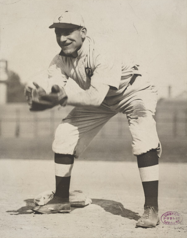 Accession No.: 06_06_000061 Title: Napoleon Lajoie, second baseman for Cleveland Caption: The only Lajoie and the "smile that won't" Creator: unidentified Date: ca. 1906 Format: photograph Description: Nap Lajoie started his career playing in the New England League and went on to have a Hall of Fame career with Philadelphia and Cleveland. BPL Collection: McGreevey Collection BPL Department: Print Subject: Baseball--History Baseball players Lajoie, Napoleon, 1875-1959